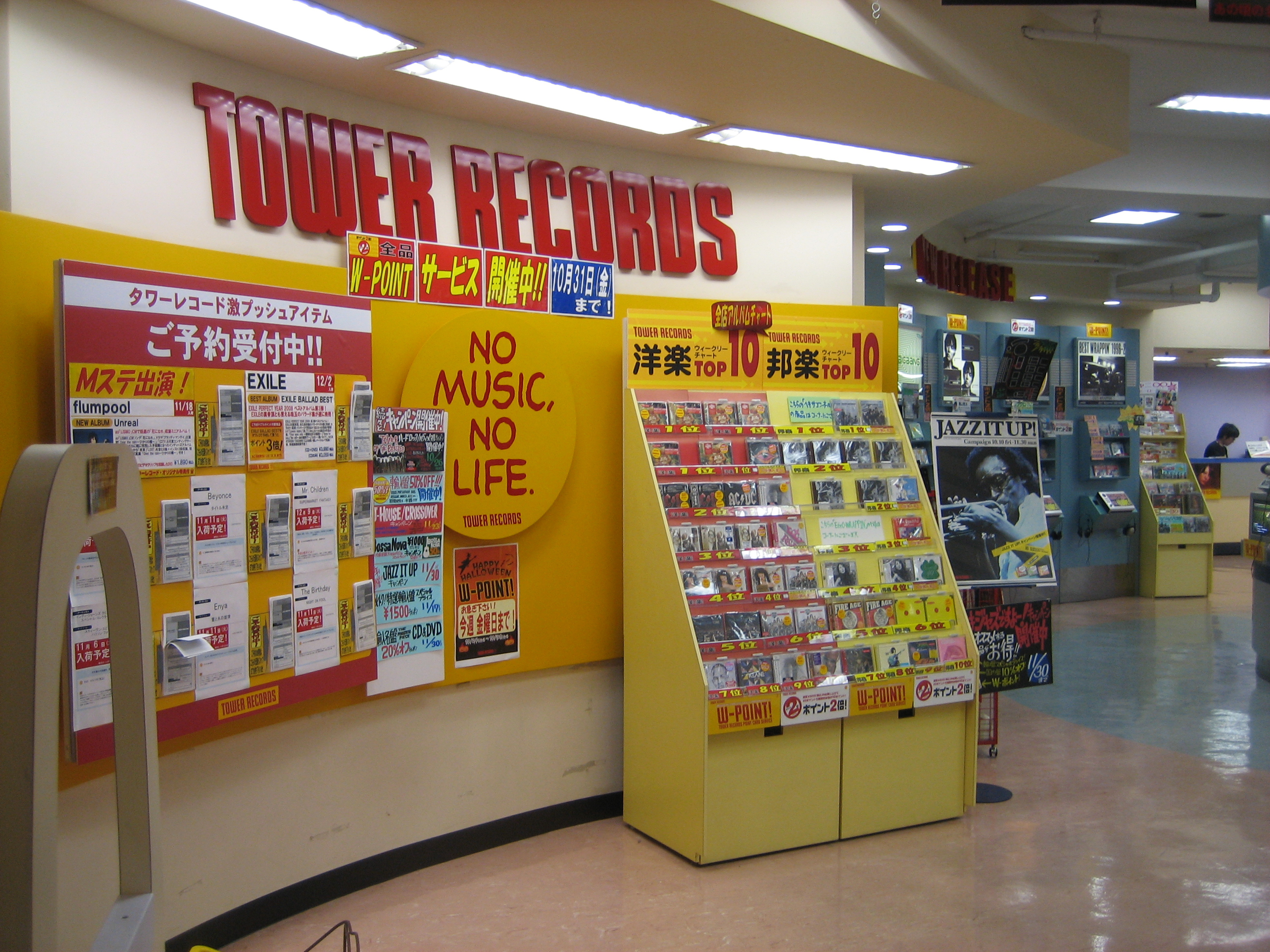 Store of Tower Records in Himeji.